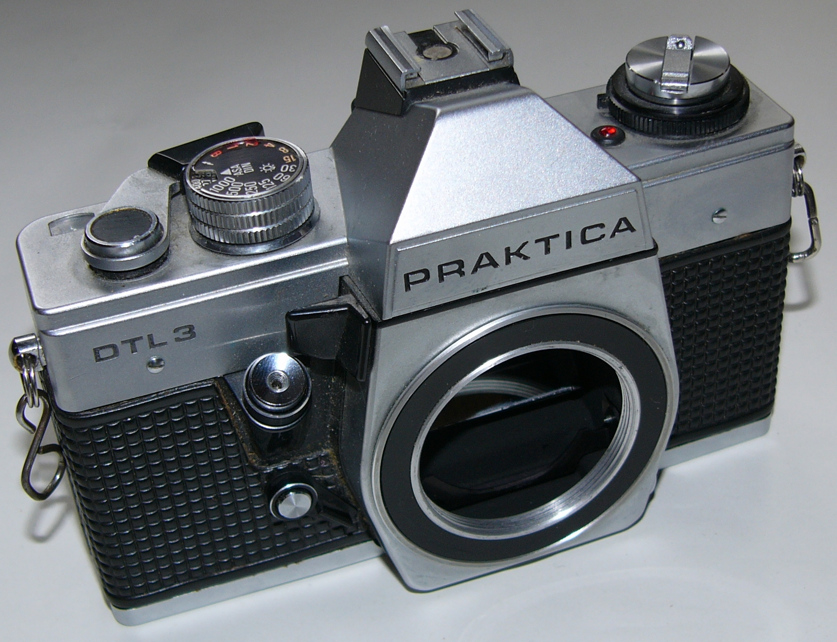 Author: Danny Uischner This is a picture of a SLR Pentacon Praktica DTL 3 without any lenses and broken self-timer.